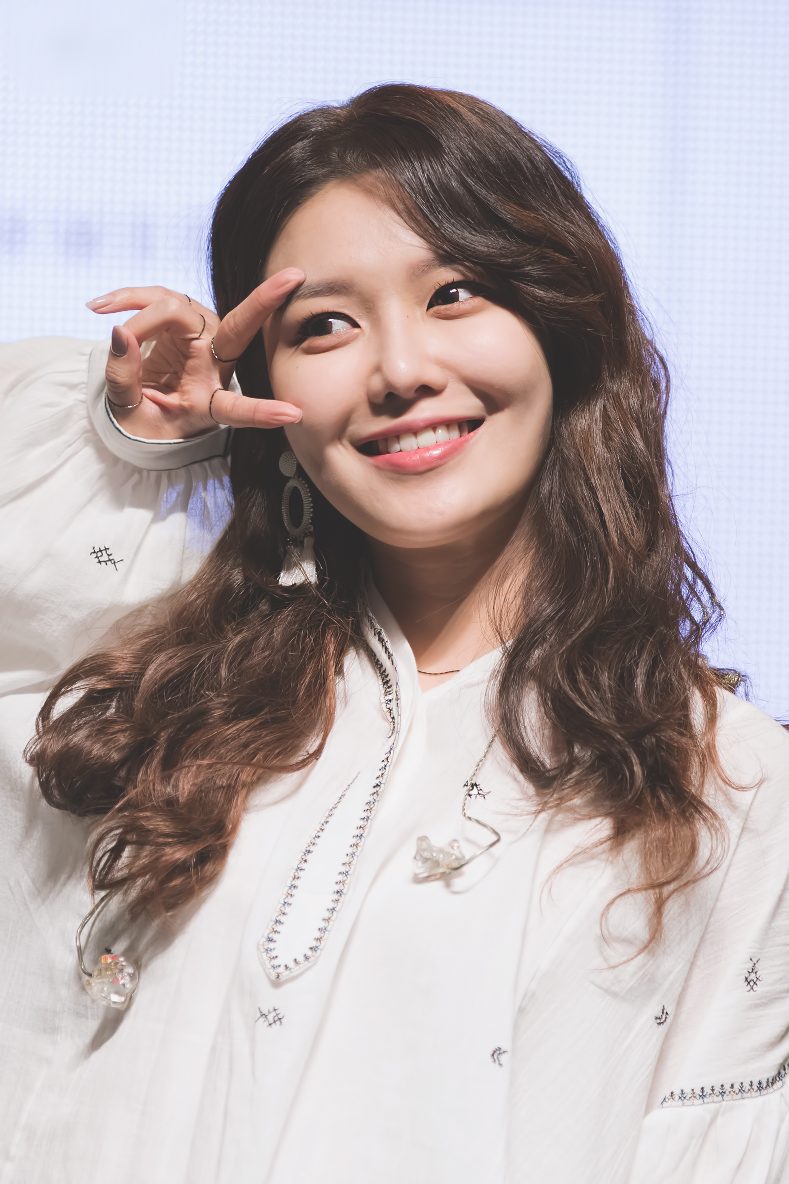 Choi Soo-young at a fan meeting on February 10, 2018.